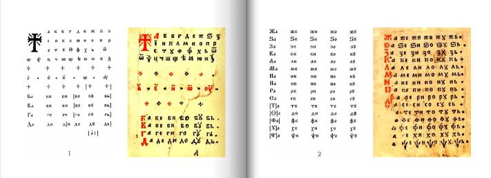 The first Serbian primer inoka Save from 1597.